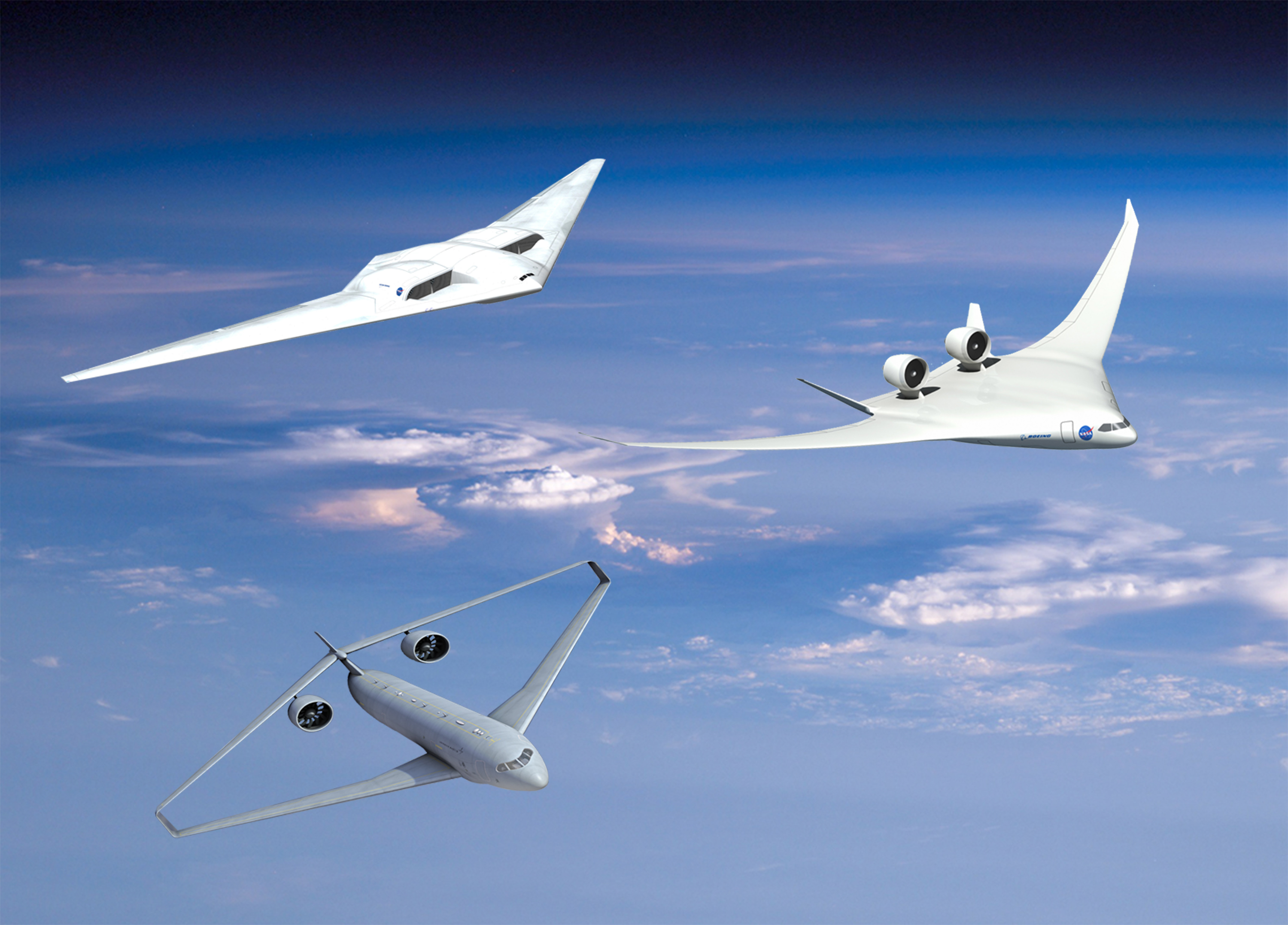 Three industry teams spent 2011 studying how to meet NASA's goals for making future aircraft burn 50 percent less fuel than aircraft that entered service in 1998, emit 75 percent fewer harmful emissions; and shrink the size of geographic areas affected by objectionable airport noise by 83 percent. Image credit: NASA